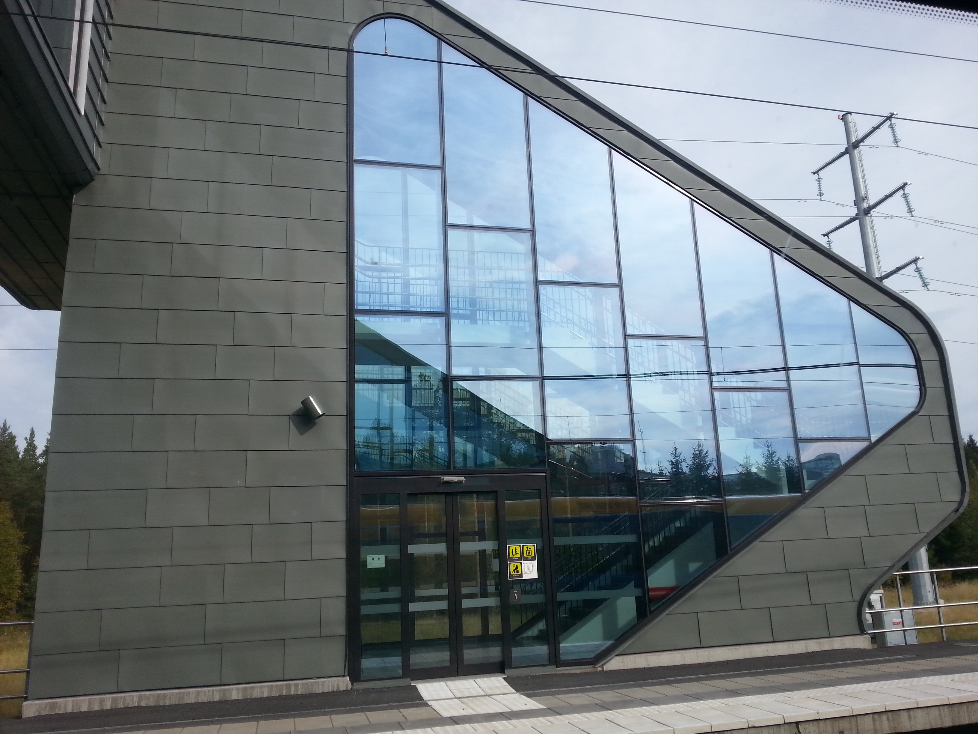 Sunderby station